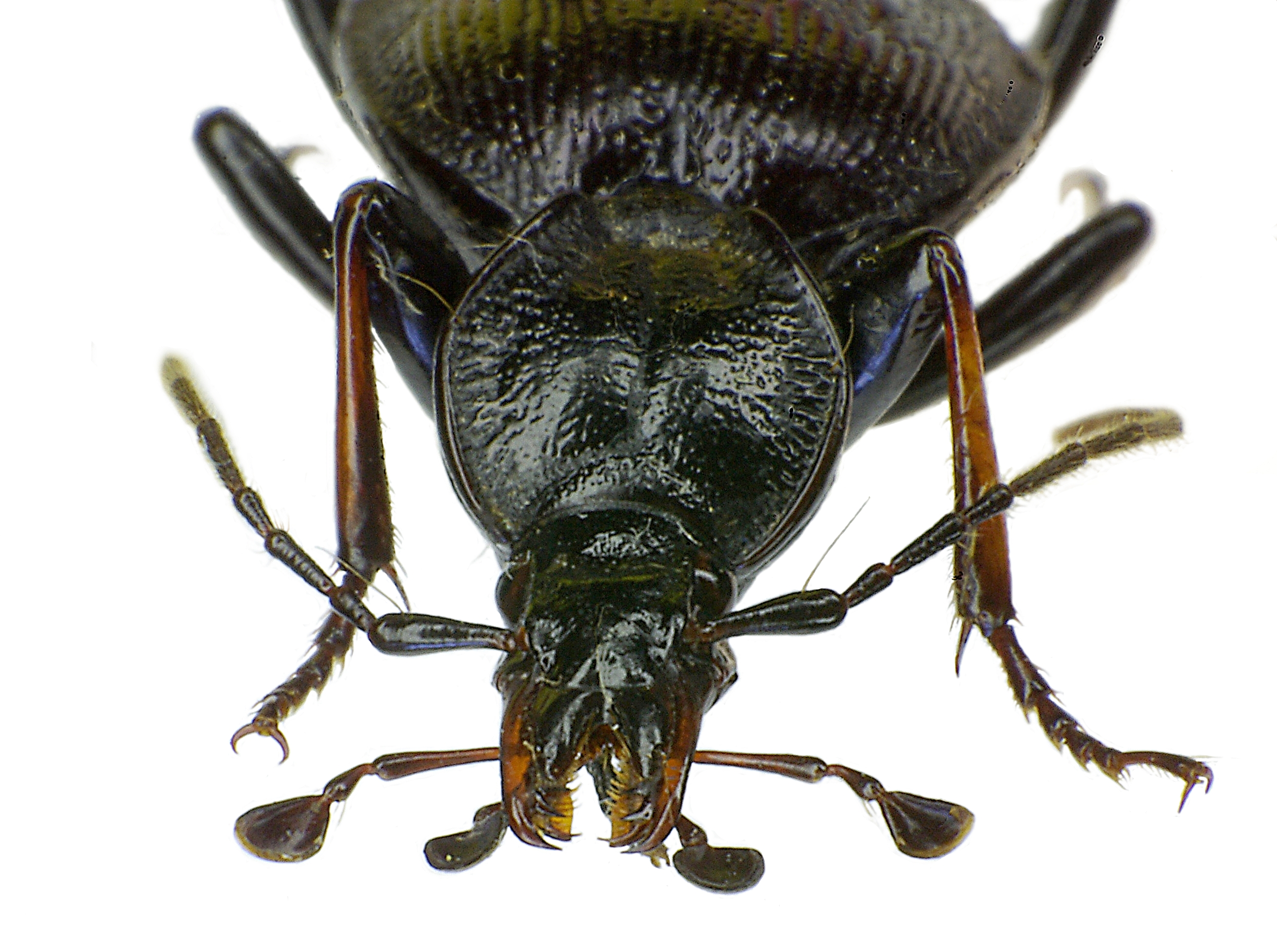 Front of Cychrus attenuatus